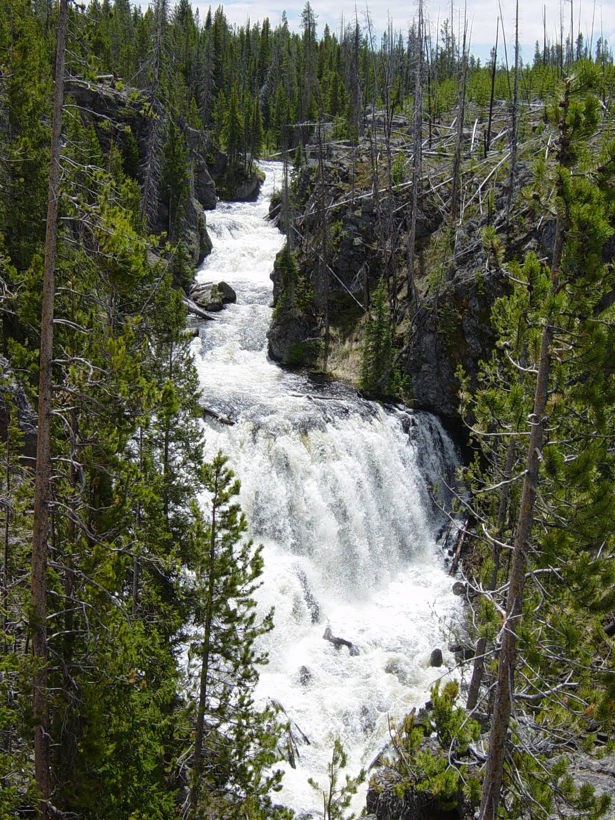 Photo taken in the Yellowstone area.